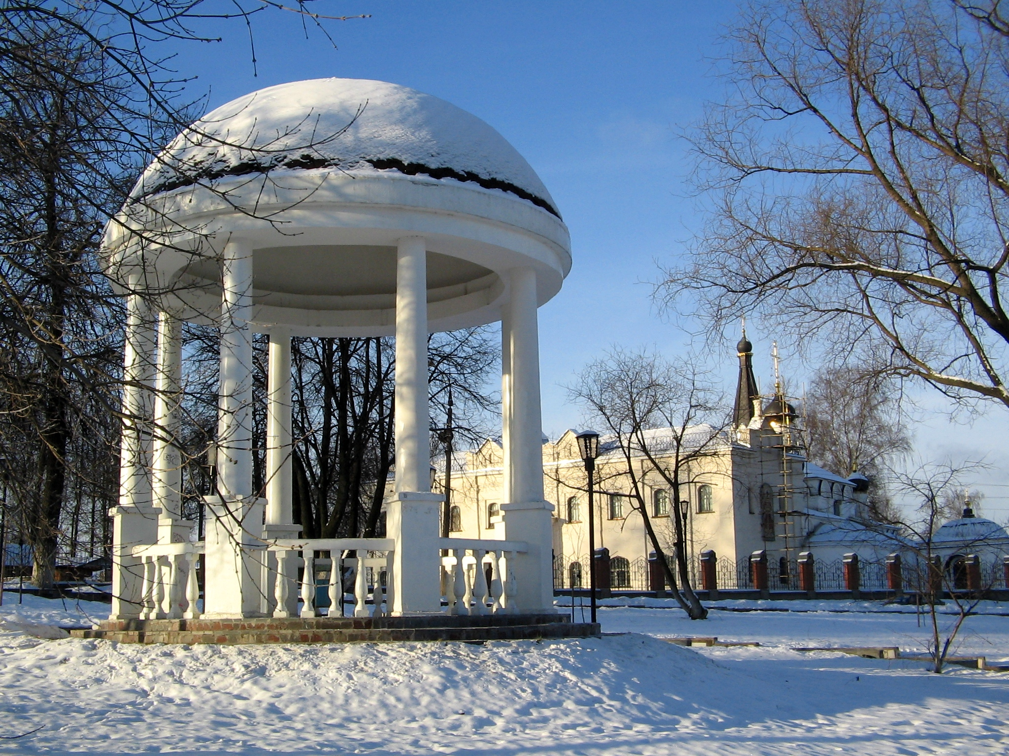 Ротонда у пруда (Долгопрудный)